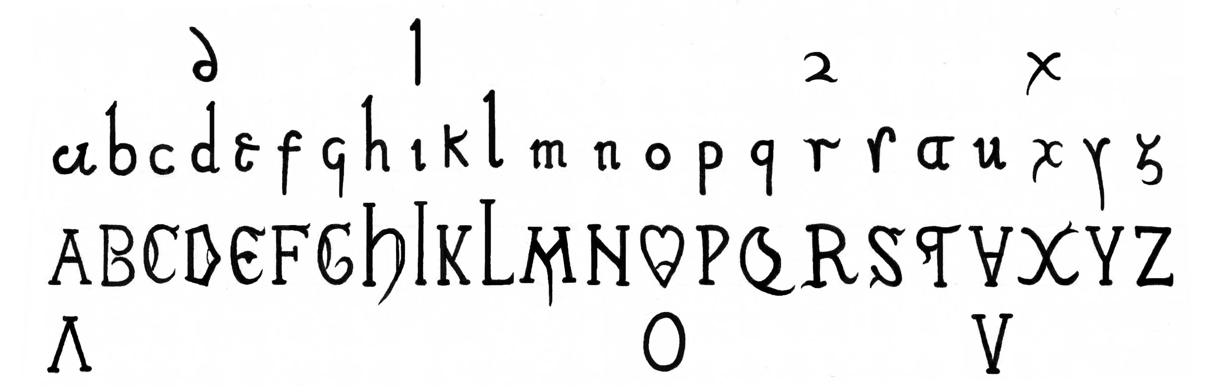 Alphabet in Visigothic script, low and upper case, with some of its variants